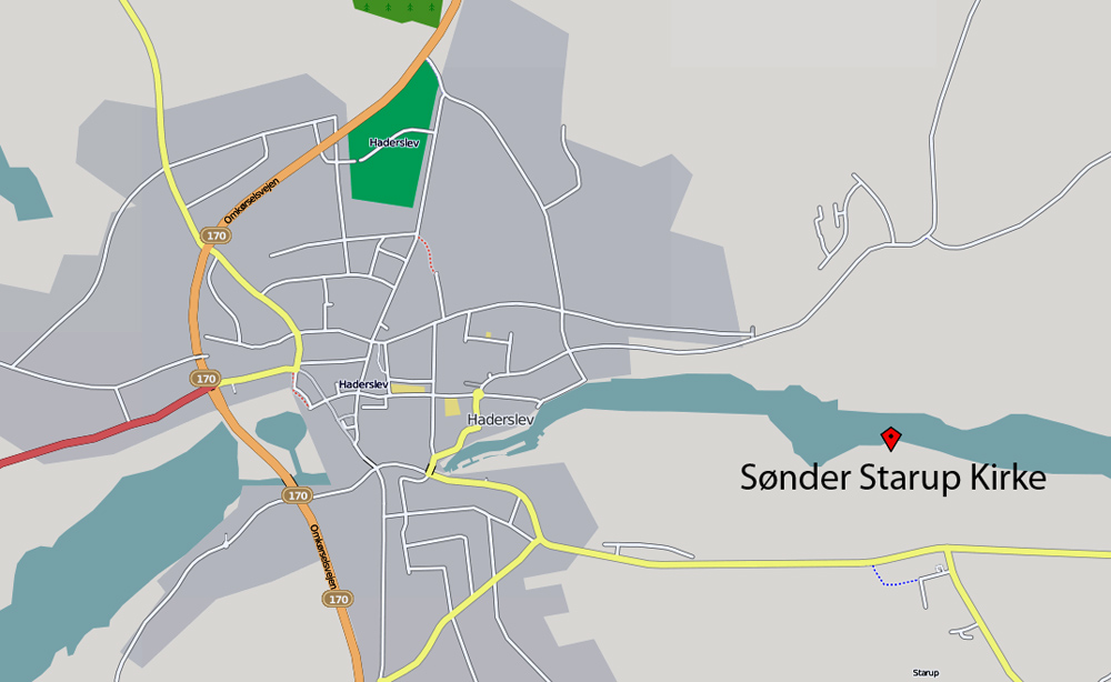 Map Starup Church near Haderslev, Denmark